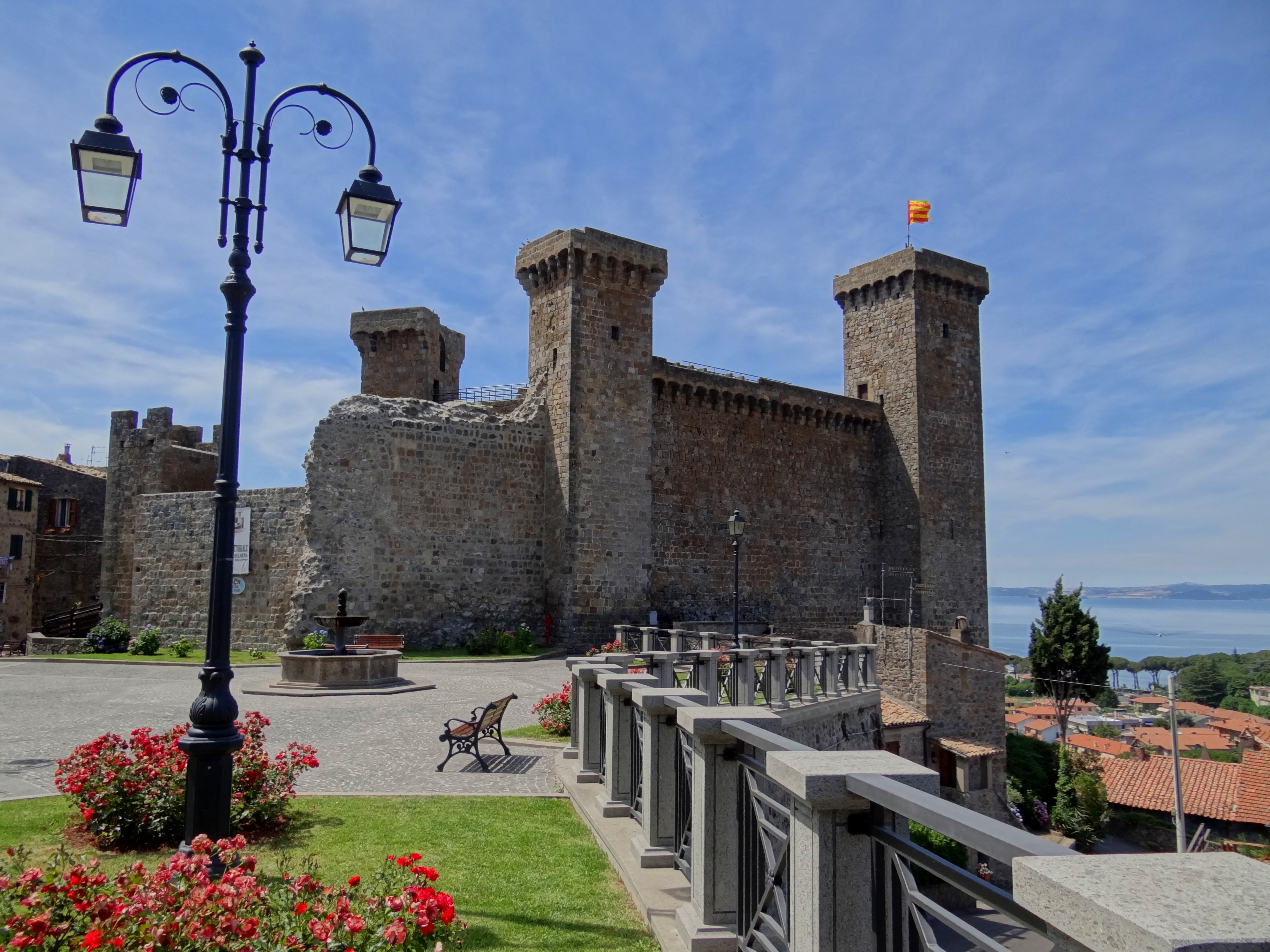 The Castle of Bolsena as seen from the Via Francigena just as it enters the town.